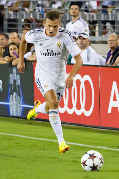 Denis Cheryshev of Real Madrid playing against LA Galaxy at University of Phoenix Stadium on August 1, 2013